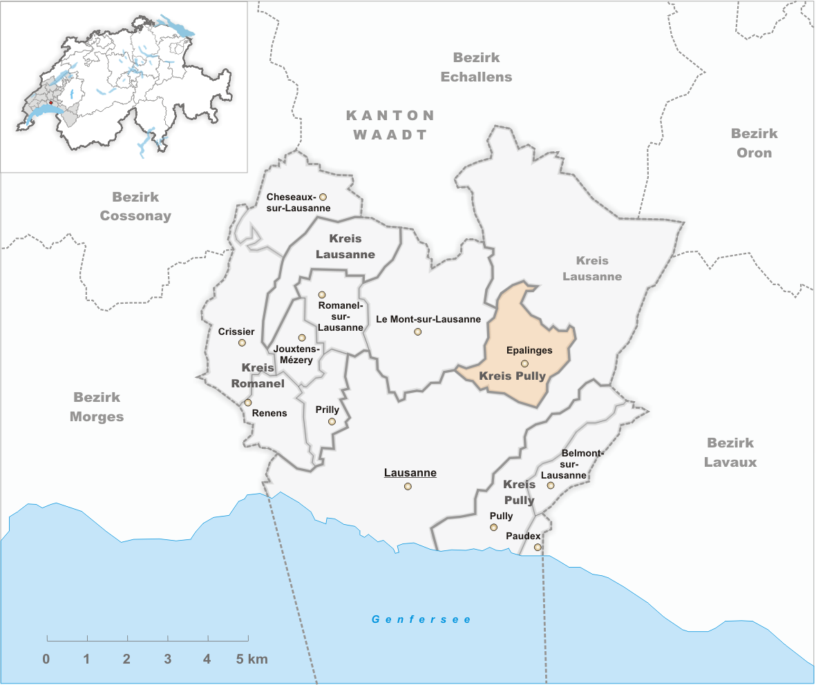 Municipality Epalinges